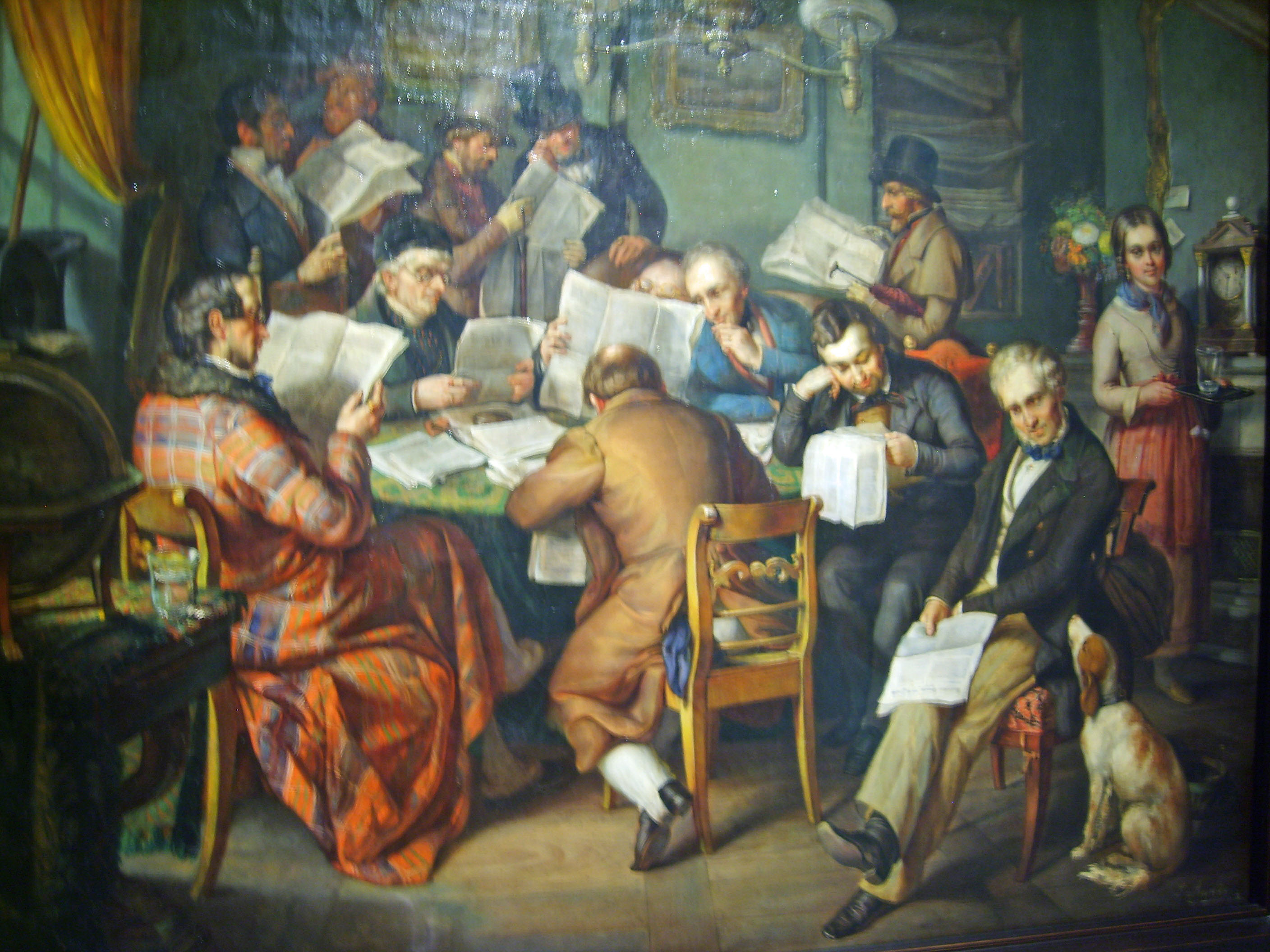 Das Lesekabinett Dresden oil on canvasmedium QS:P186,Q296955;P186,Q12321255,P518,Q861259